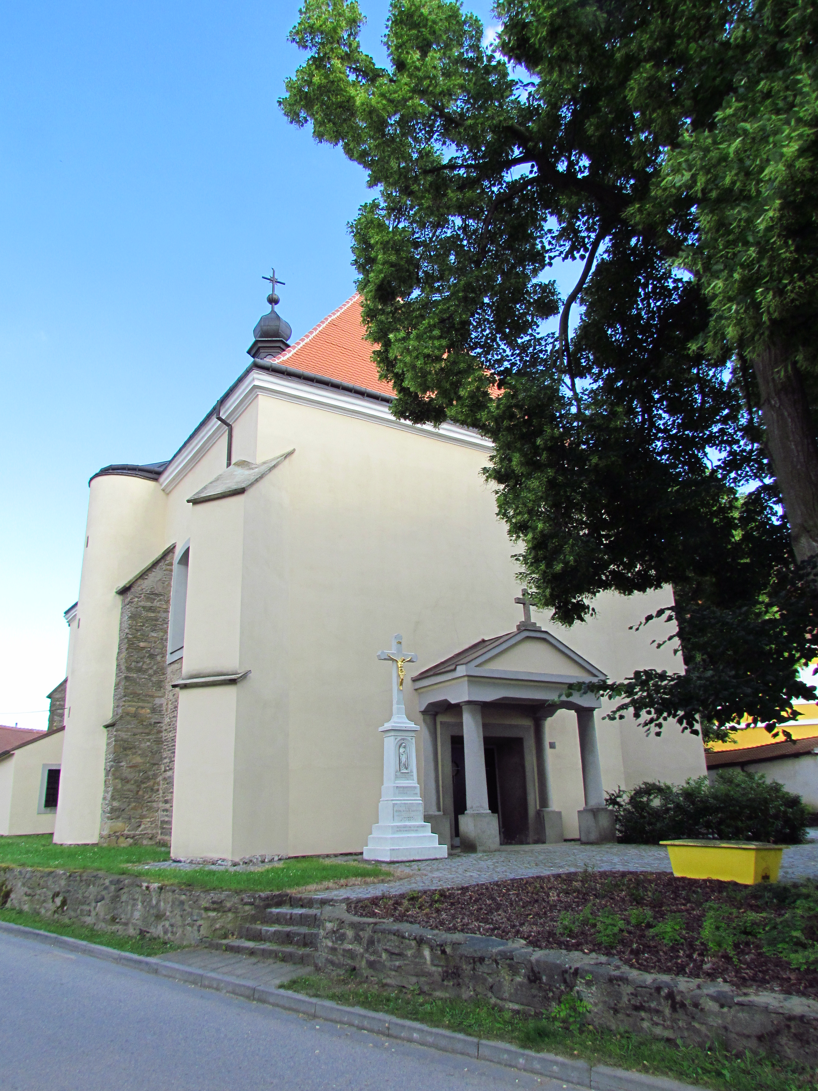 Overview of church of the Assumption in Rouchovany, Třebíč District.